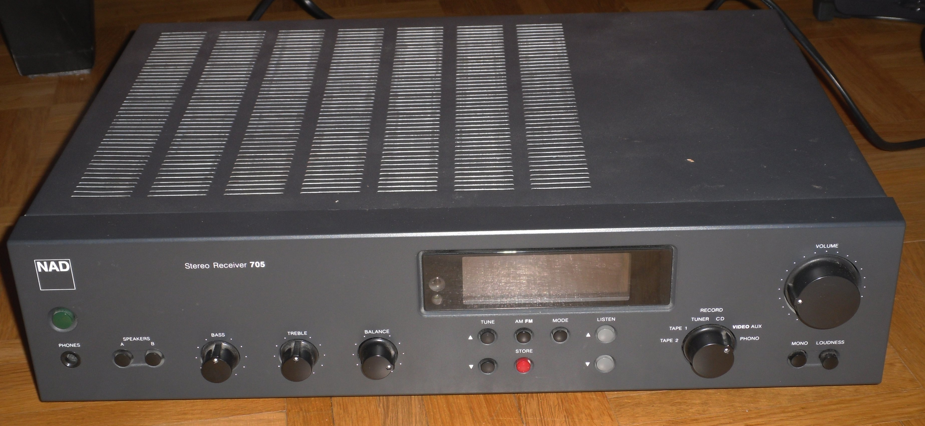 =NAD Electronics stereo reciver type 705, year built approx. 1997